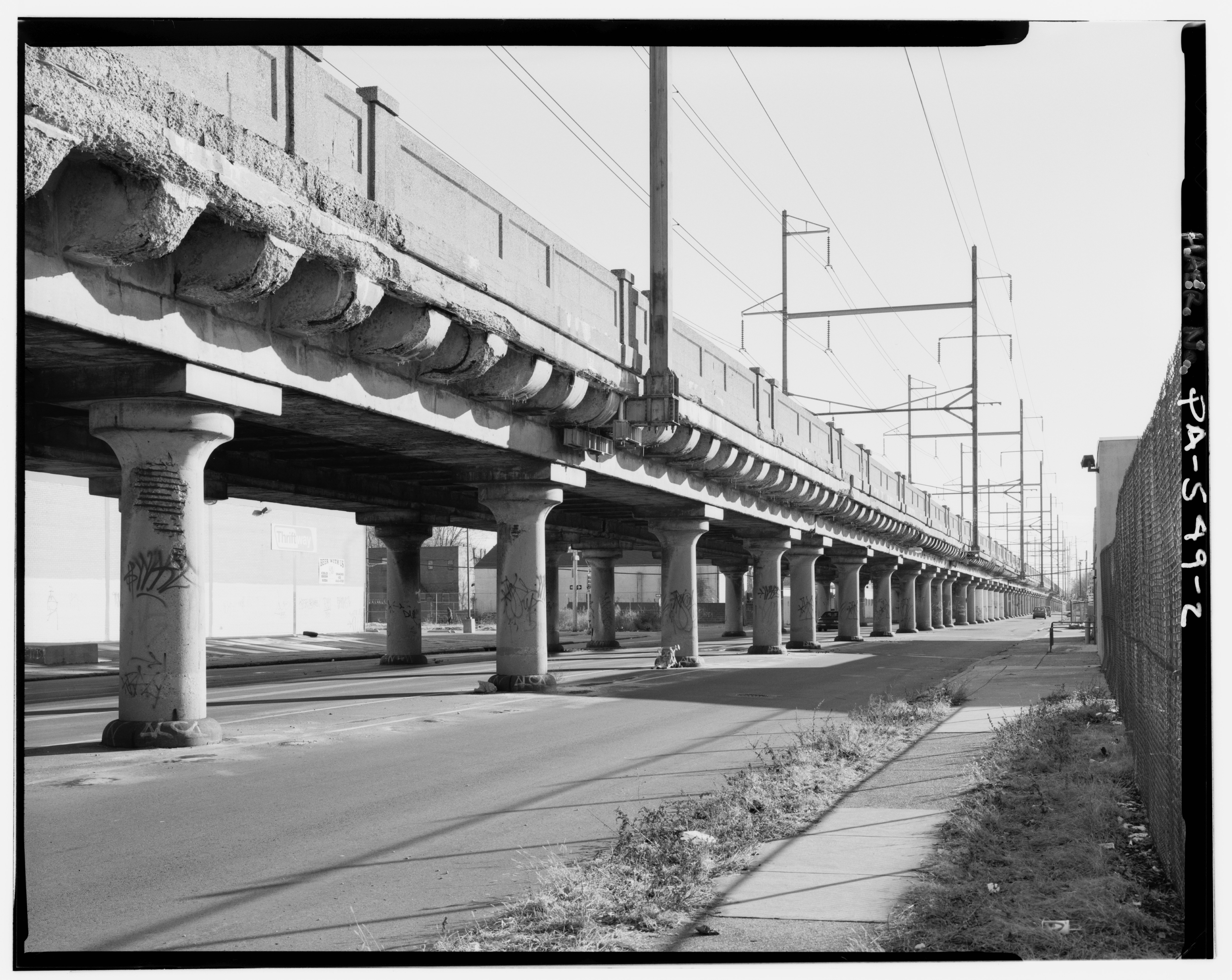 General view of the 25th Street Elevated in Philadelphia, Pennsylvania. The viaduct was erected between 1926 and 1928 in order to consolidate freight railroad spurs in South Philadelphia.